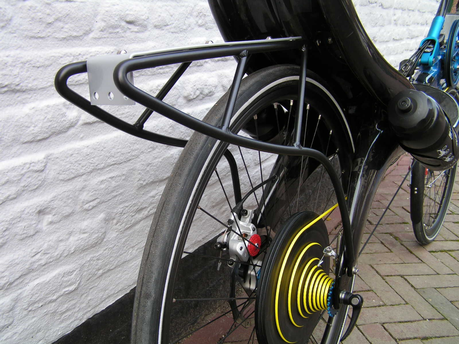 snek van roeifiets